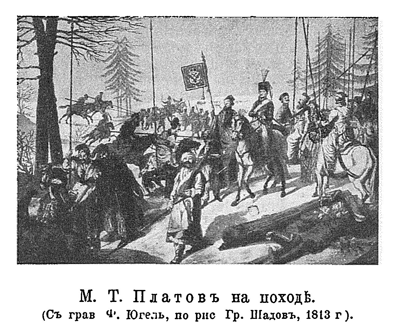 Count Matvei Ivanovich Platov (8 (19) August 1753 – 3 (15) January 1818) was a Russian general who commanded the Don Cossacks in the Napoleonic wars and founded Novocherkassk as the new capital of the Don Host Province.